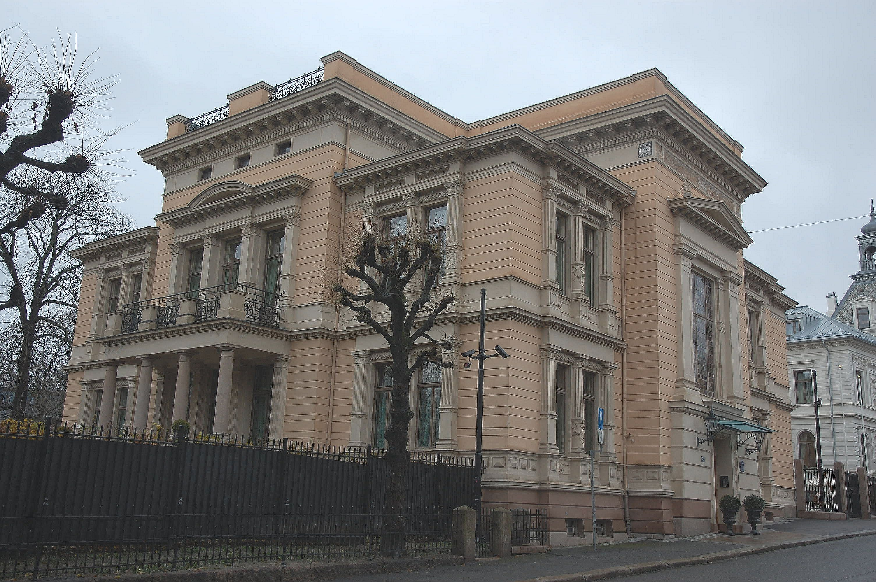 Parkveien 45, the governmental representation house of Norway.